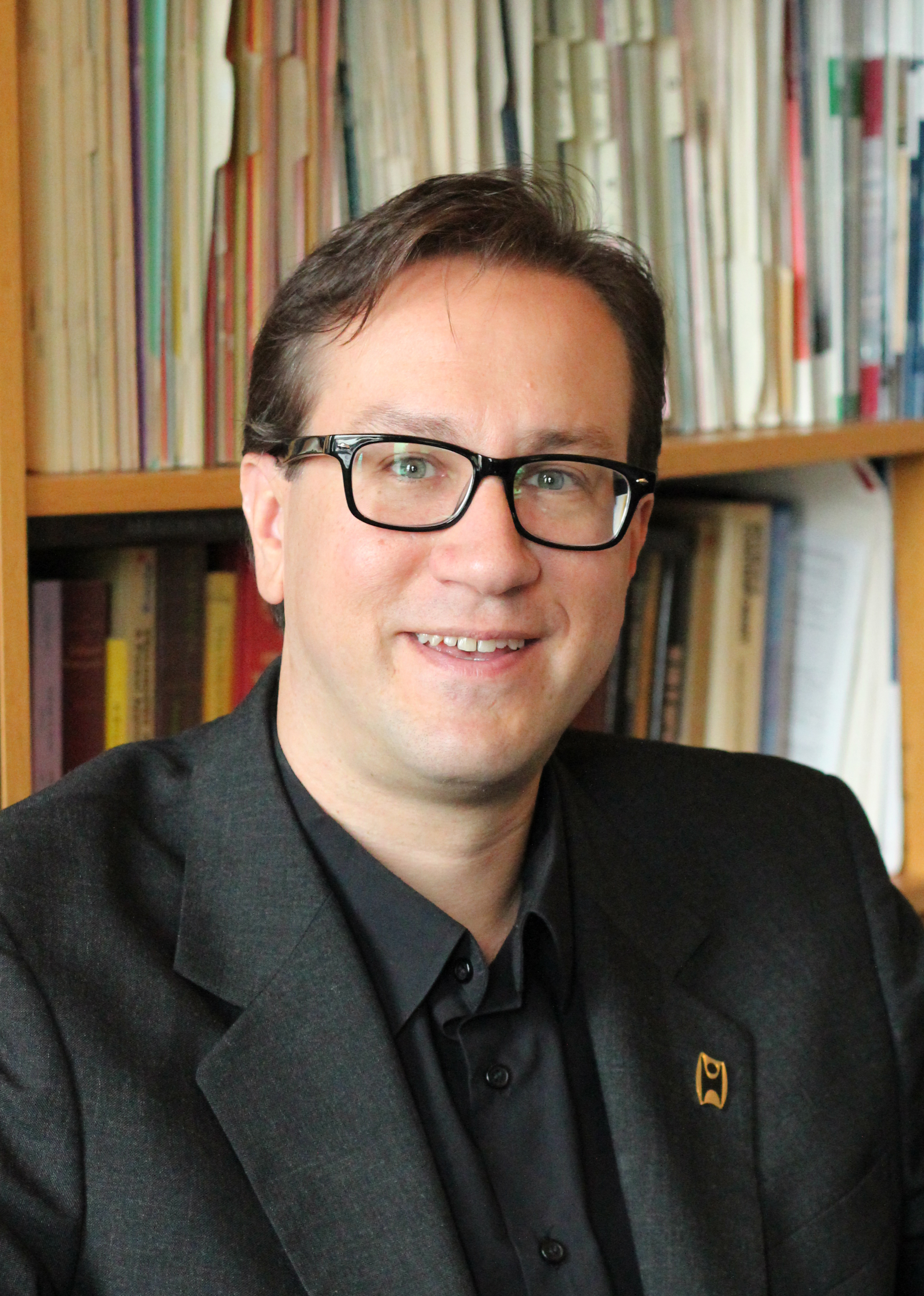 American Humanist Association Executive Director Roy Speckhardt taken in his Washington, DC office in July 2012.